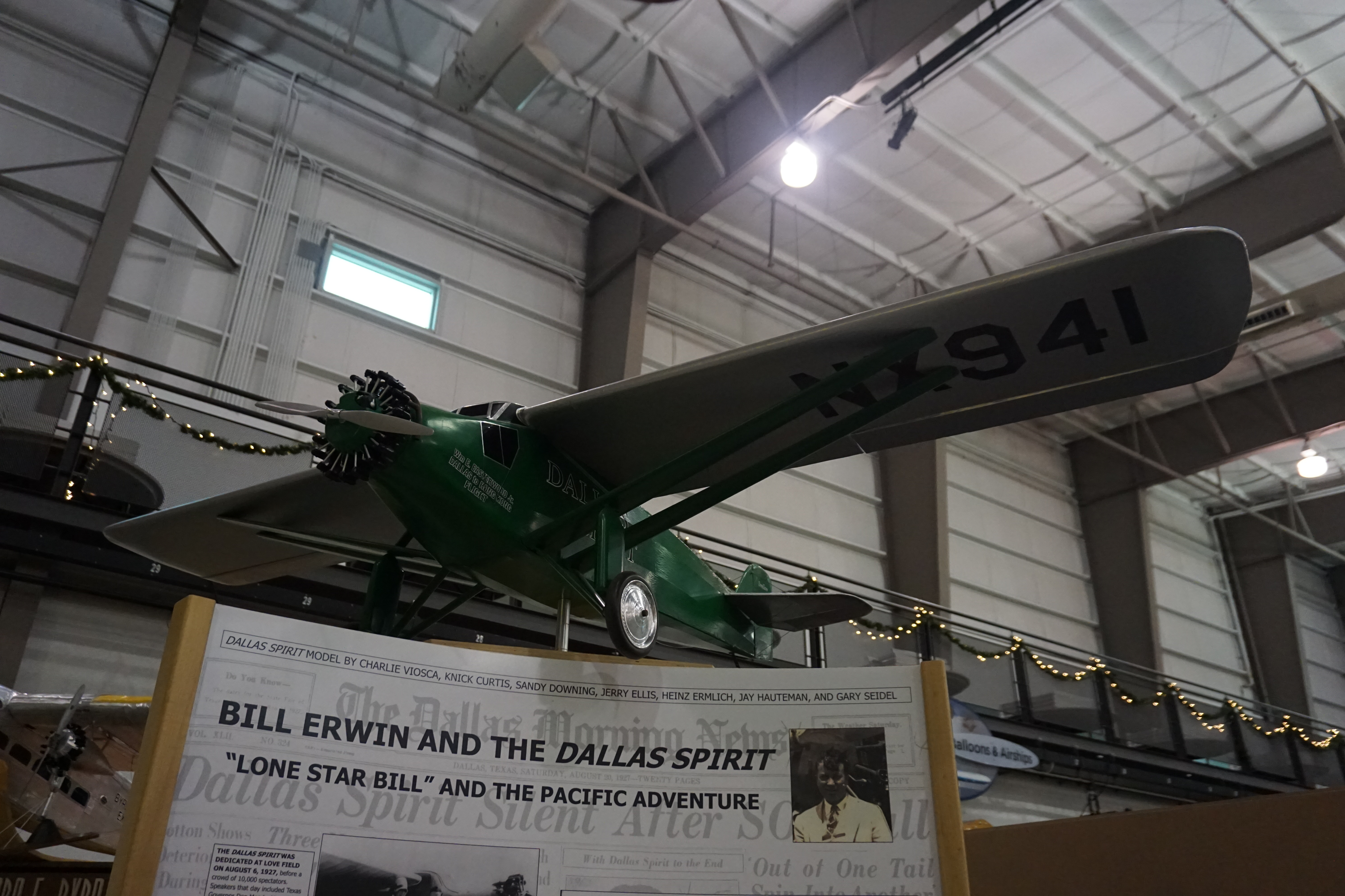 A Dallas Spirit model on display at the Frontiers of Flight Museum at Dallas Love Field in Dallas, Texas (United States).